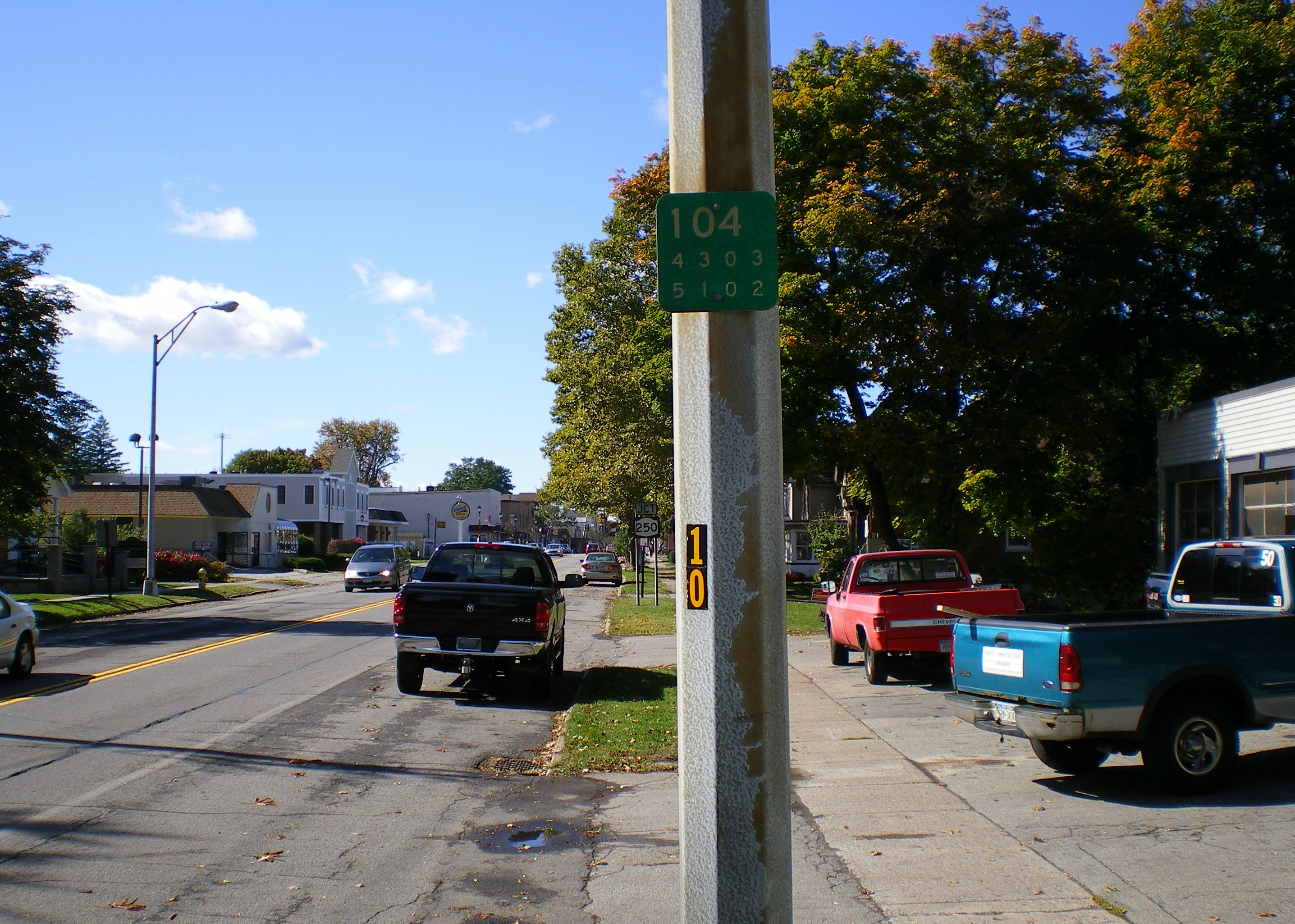 Reference marker for New York State Route 104 on New York State Route 404 westbound in Webster. This segment of NY 404 was part of NY 104 (and its predecessor, U.S. Route 104) until the 1980s. Most NY 104-era markers on NY 404 have been patched to read "404"; however, at least two (including this one and another west of the village on NY 404 eastbound) were not.